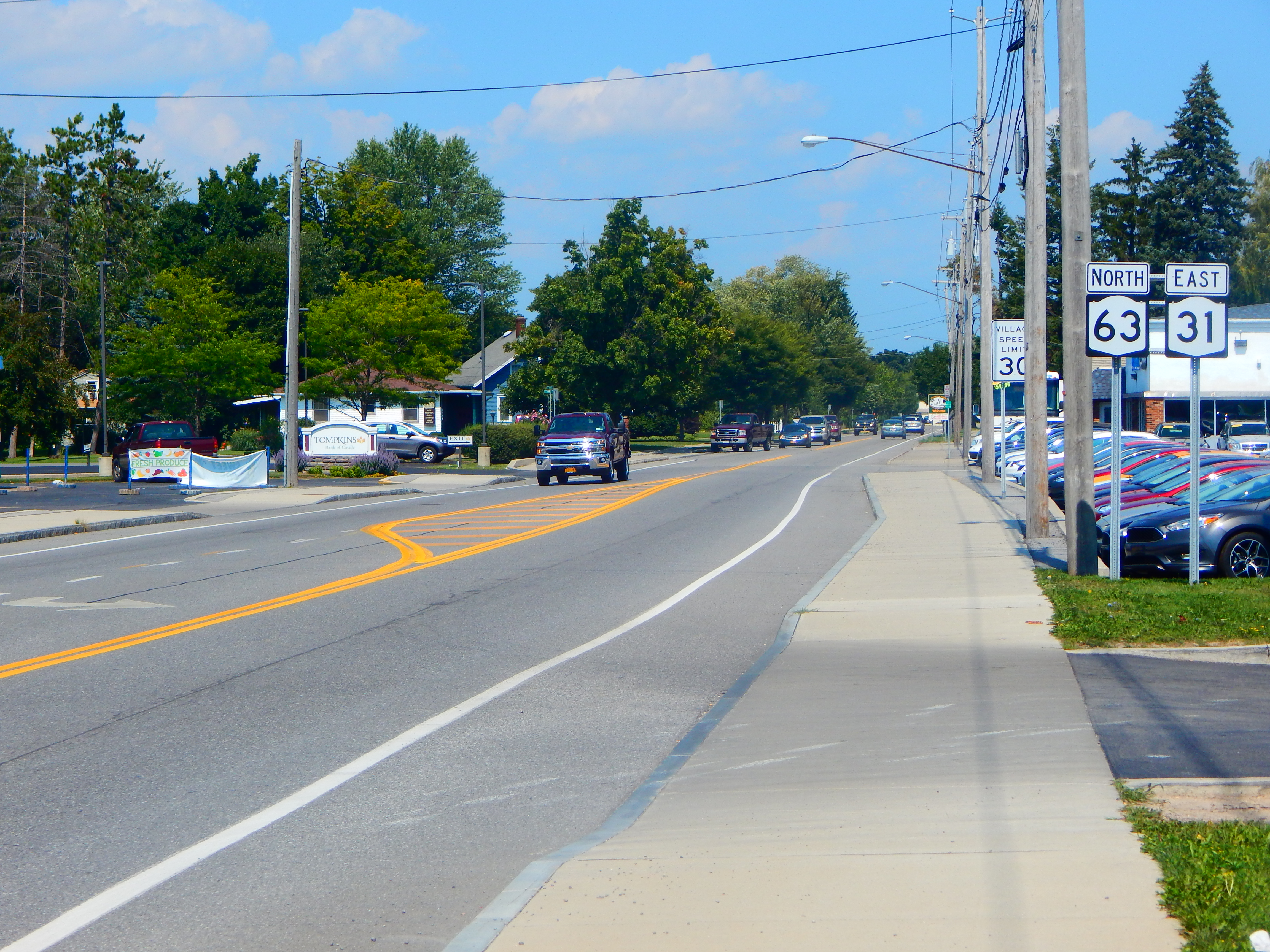 NY 63 and NY 31 heading north through Medina village, New York.